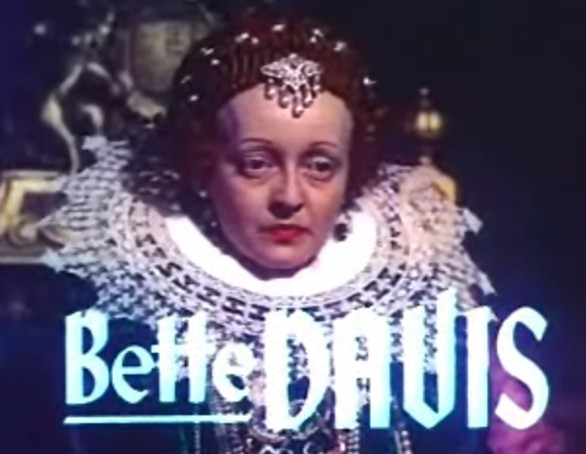 Cropped screenshot of Bette Davis from the trailer for the film The Private Lives of Elizabeth and Essex.